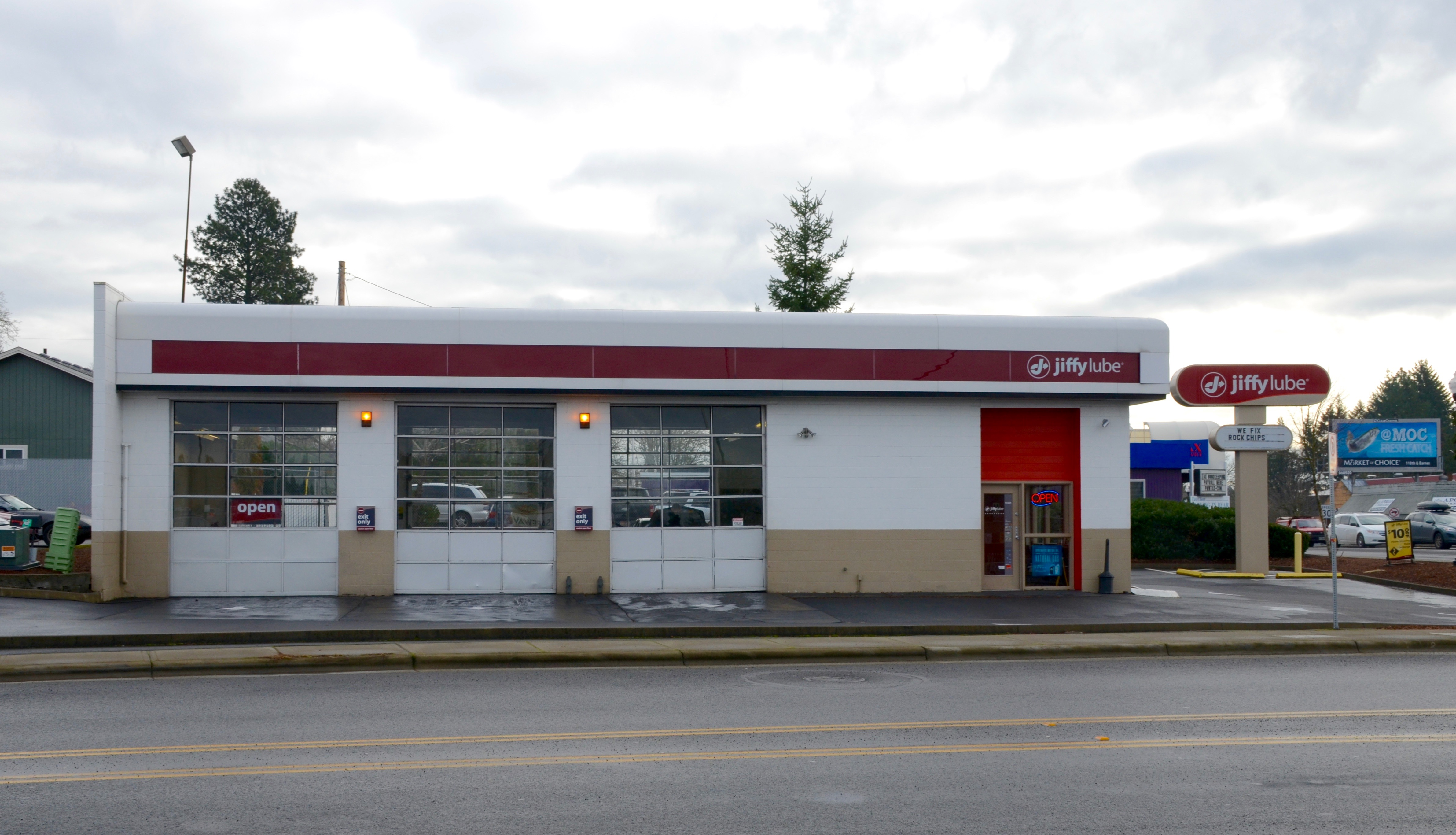 Jiffy Lube at Murray & Cornell in Cedar Mill, Oregon.